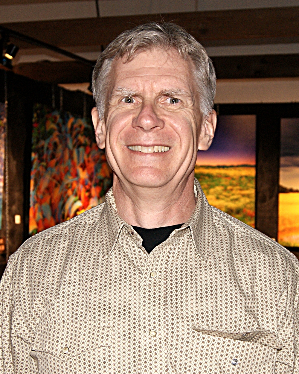 Photo taken July 11, 2011 at the Calgary Stampede Western Art Show in the Western Oasis (BMO Centre), Calgary, Alberta, Canada.